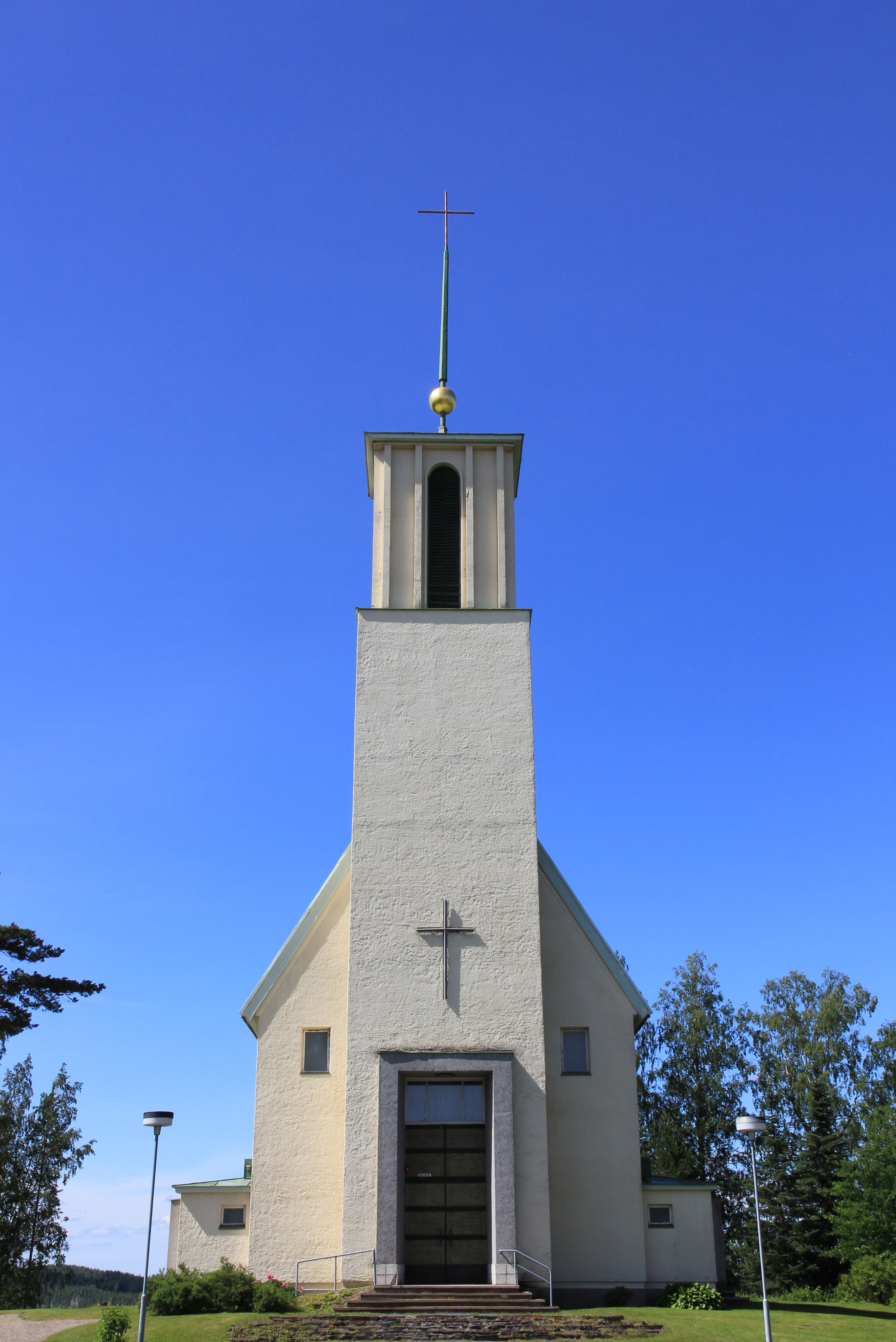 Simpele church.